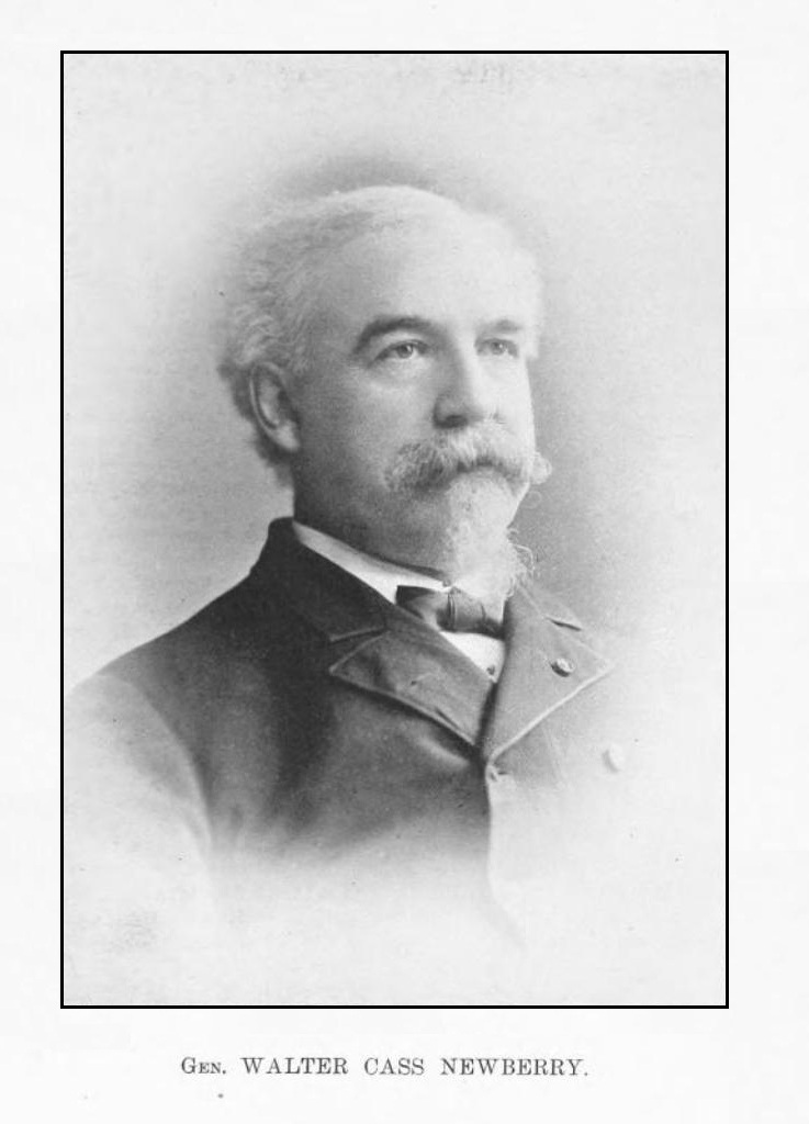 Image of General Walter Cass Newberry